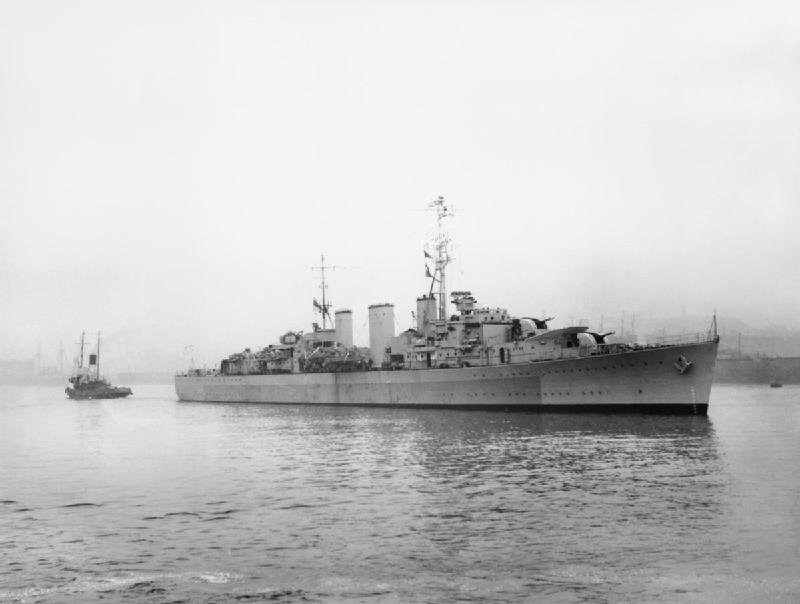 Photograph of British minelayer HMS Manxman